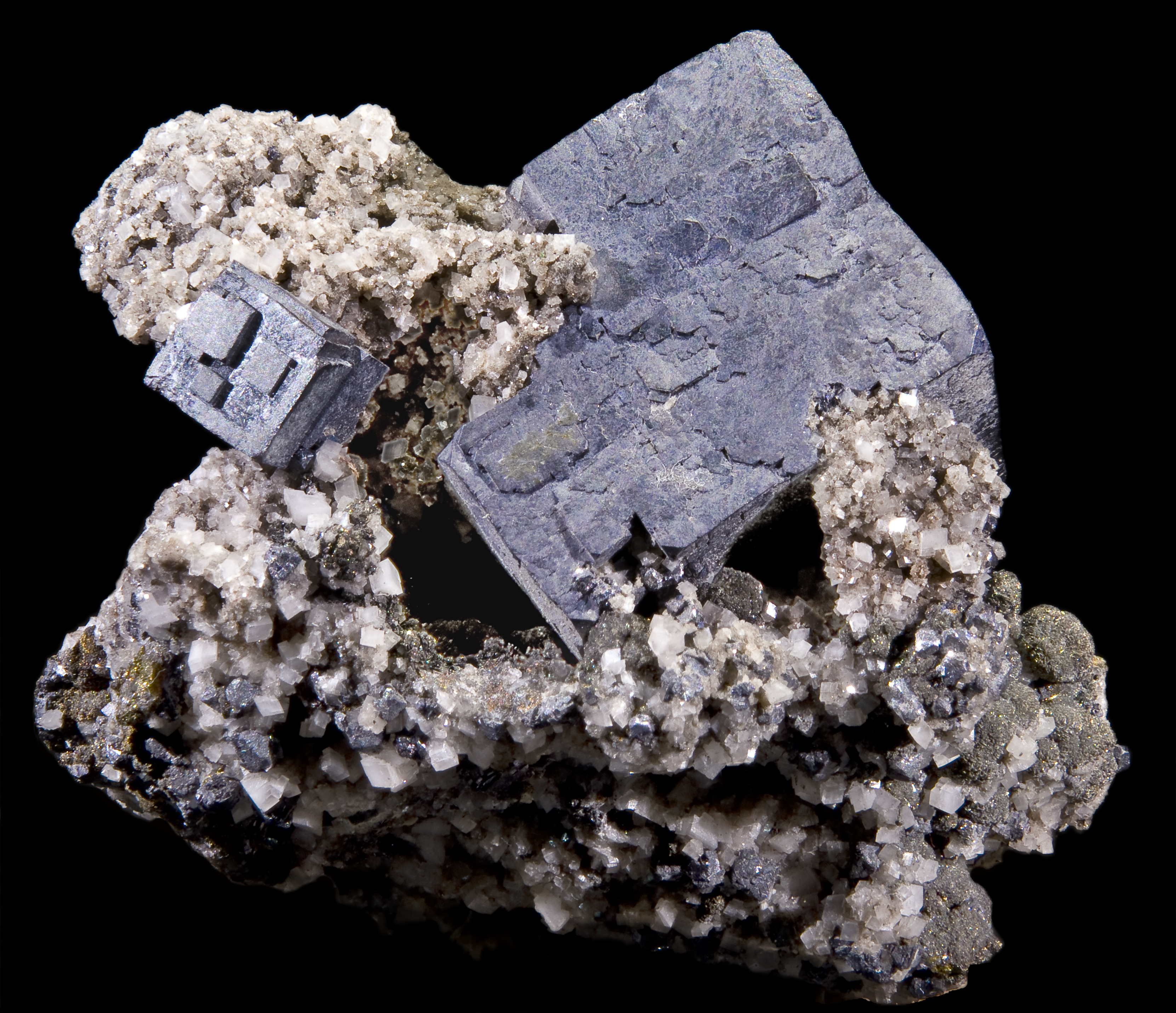 Galena accompanied by chalcopyrite and dolomite Locality : Joplin Field, Tri-State District, Jasper Co., Missouri, USA Size : 6.3x6cm